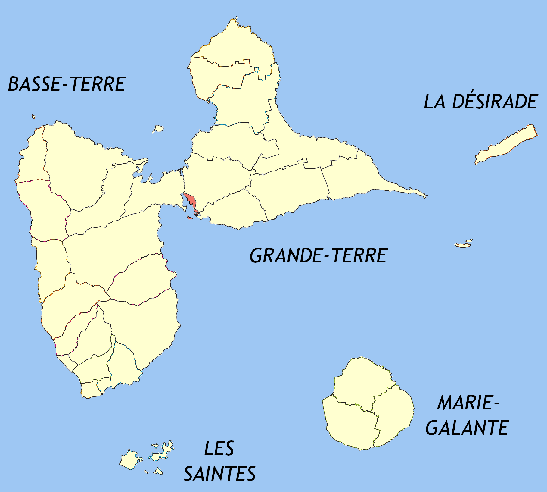 Created map myself